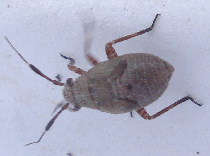 Capsus ater